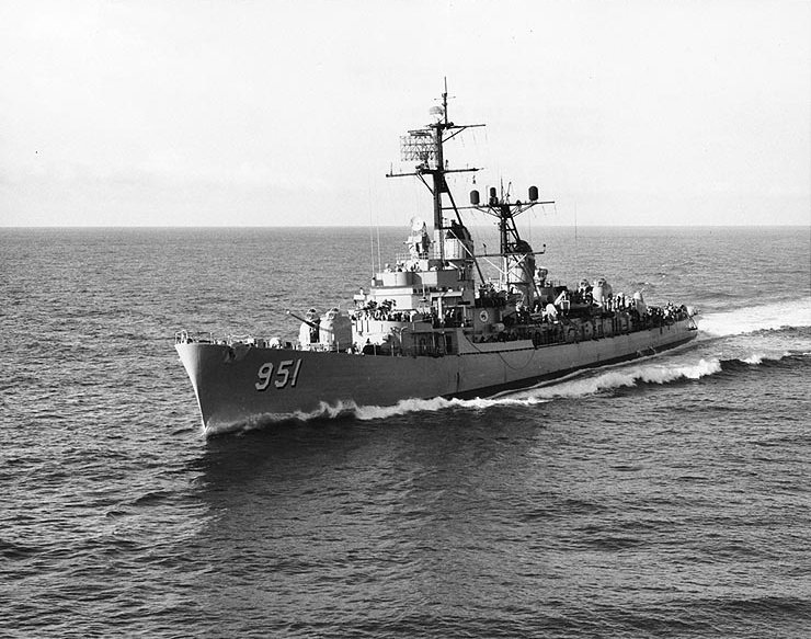 The U.S. Navy destroyer USS Turner Joy (DD-951) at sea, 25 August 1962, seen from the aircraft carrier USS Bon Homme Richard (CVA-31).